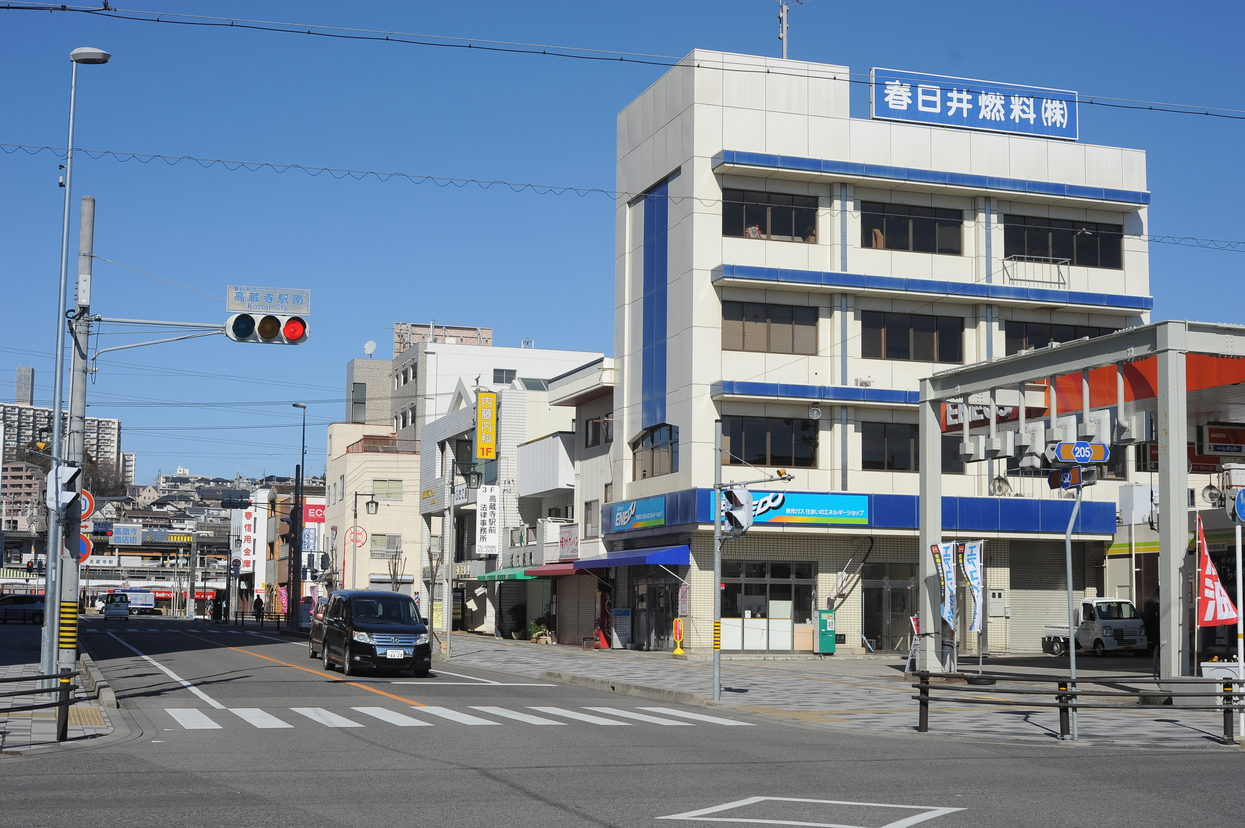 Aichi prefectural Route 452, Kasugai, Aichi